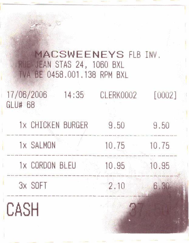 thermic paper